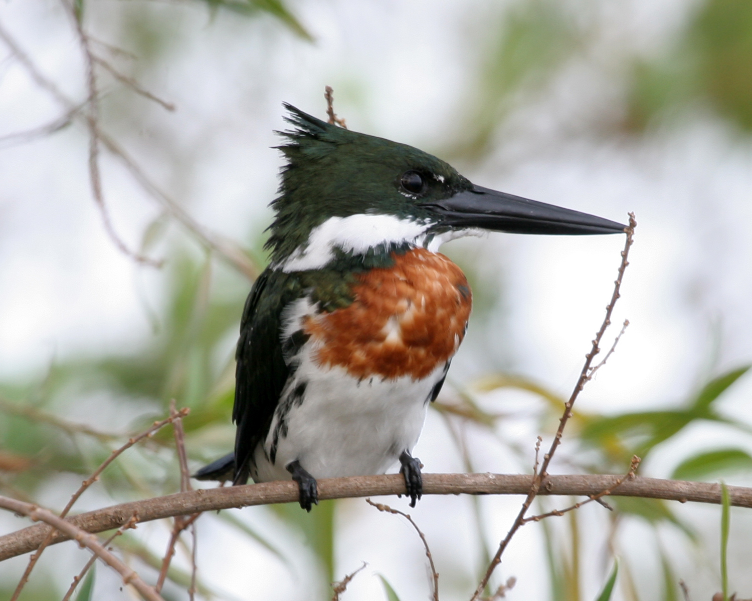 Amazon kingfisher Chloroceryle amazona male Location: Ibera Marshes, Argentina 2nd. april 2006